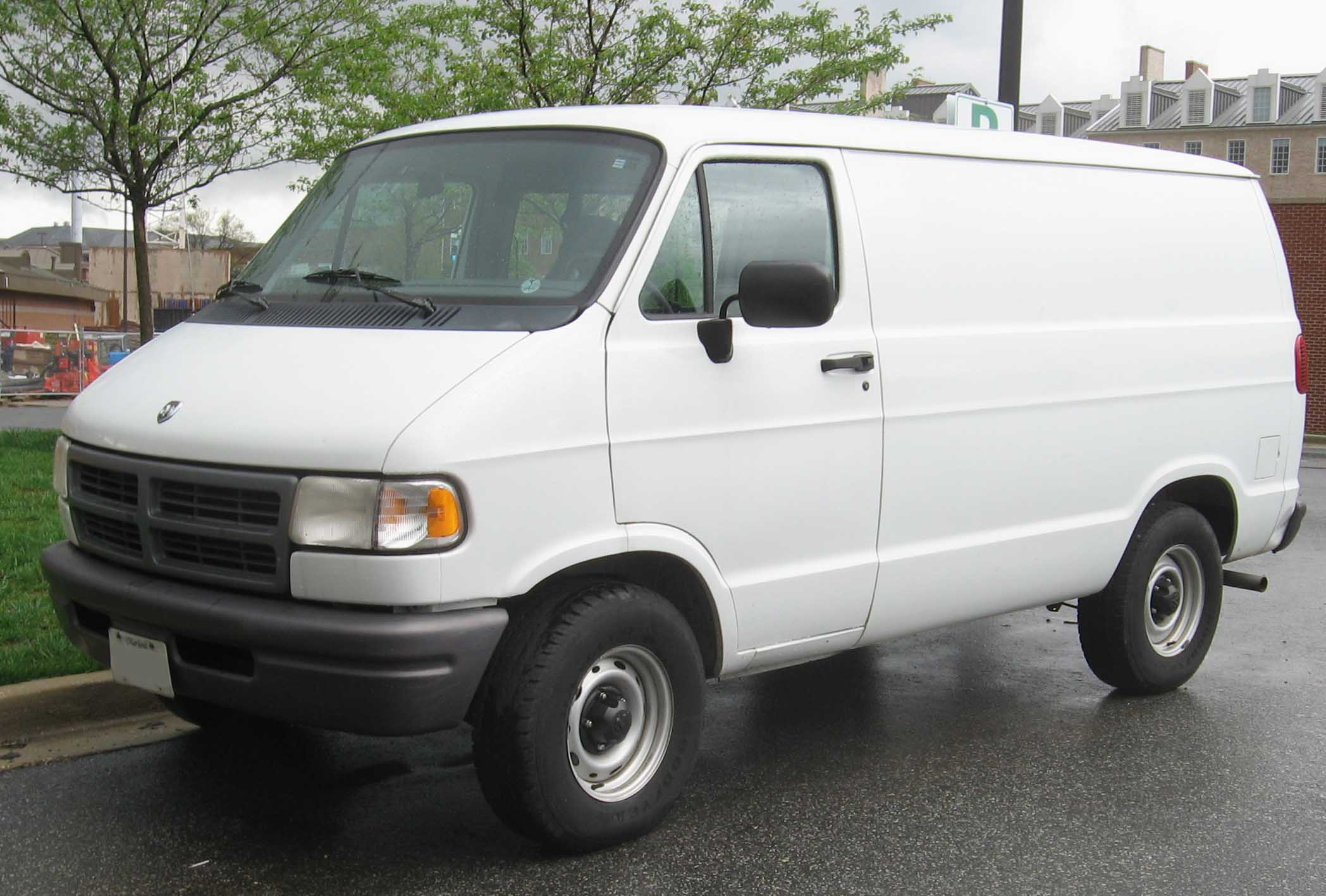 1994-2003 Dodge Ram Van photographed in College Park, Maryland, USA.